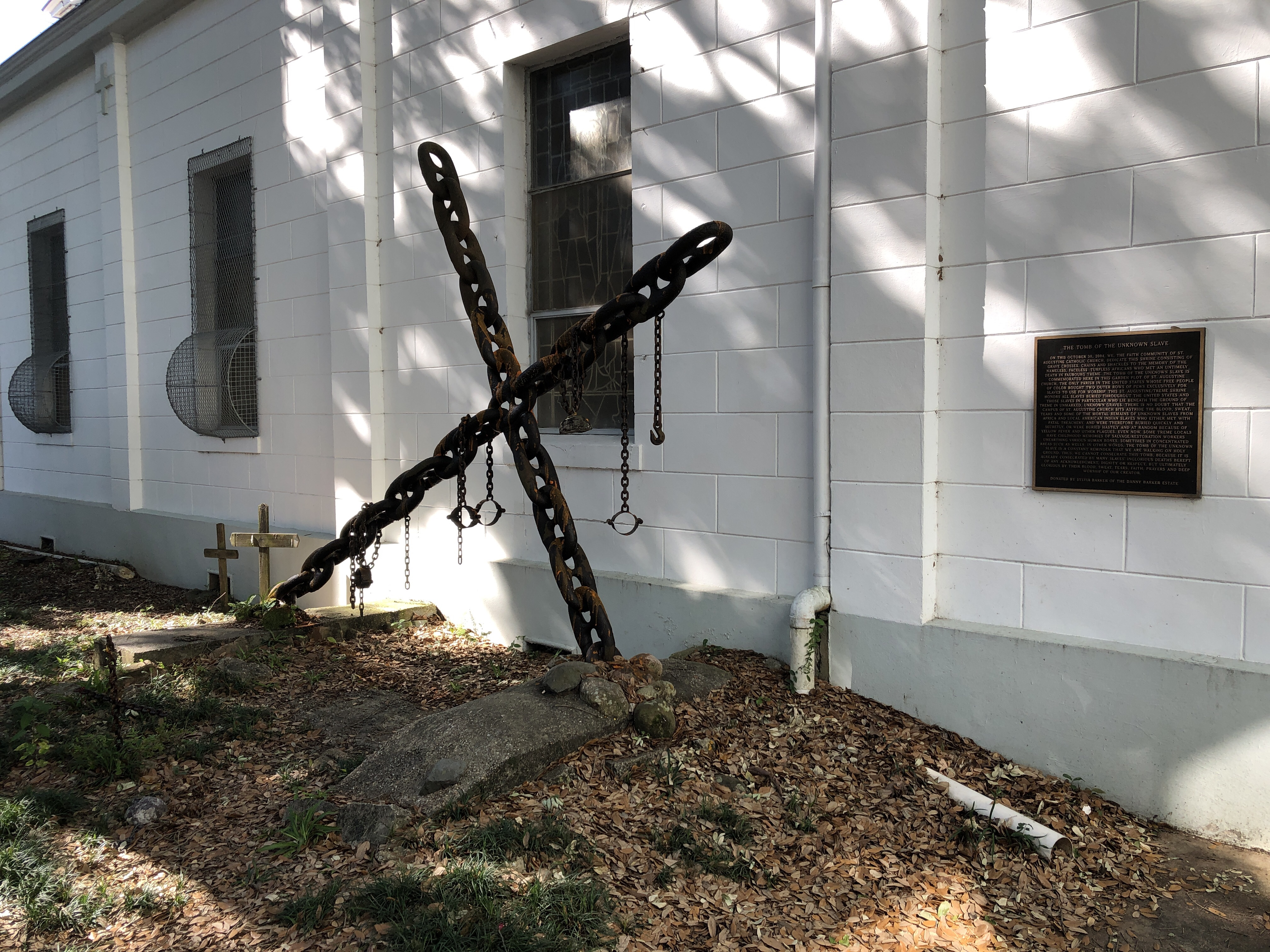 memorial in New Orleans